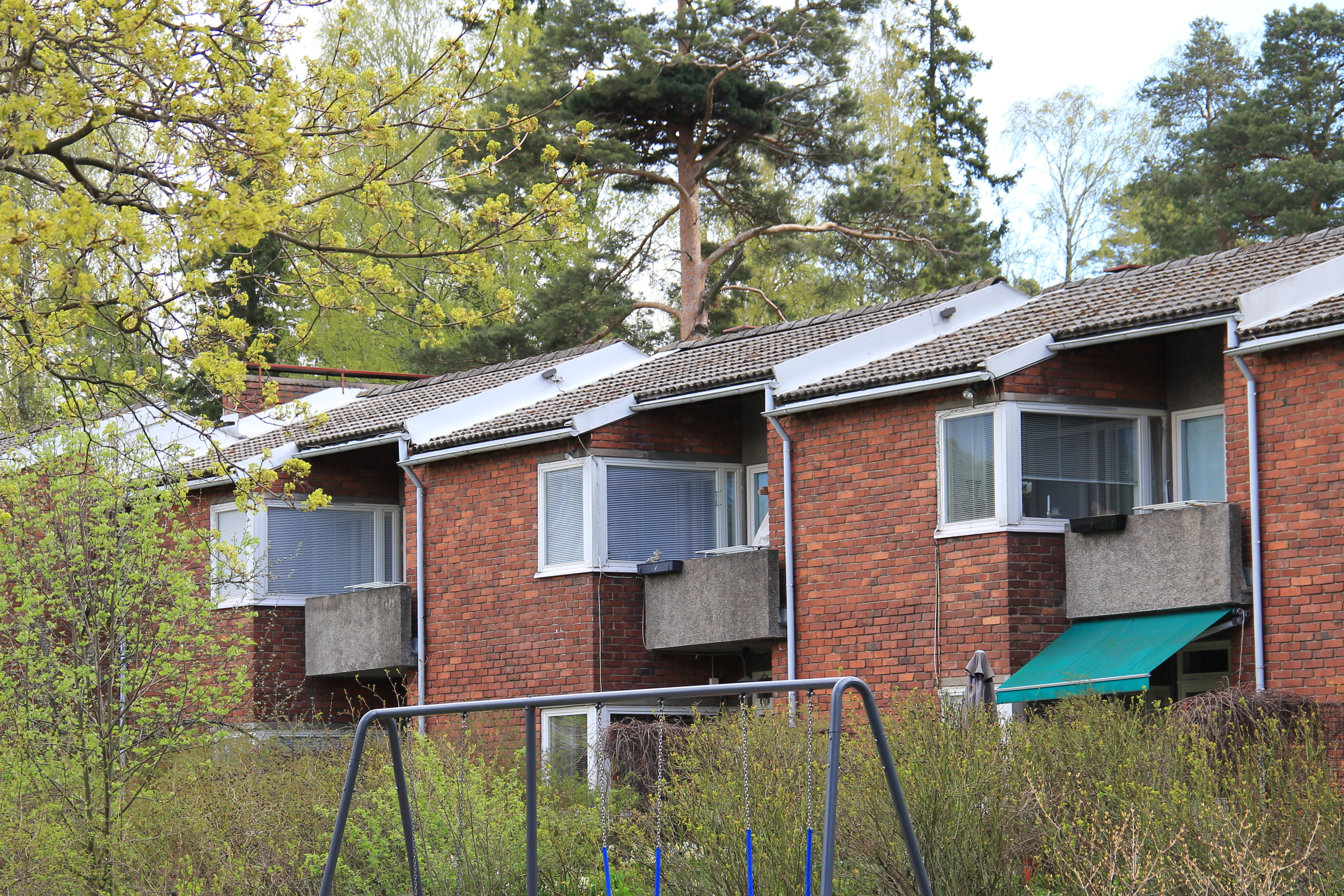 Ekonomitalo Housing Company, Lauttasaari, Helsinki, Finland. - Three terraced houses, completed in 1952, designed by architects Ahti and Esko Korhonen. Original garden design by Nils Orénto in 1953. -The entity comprises two 4-storey apartmant houses and a sauna and laundry building too. -Seen from southwest.